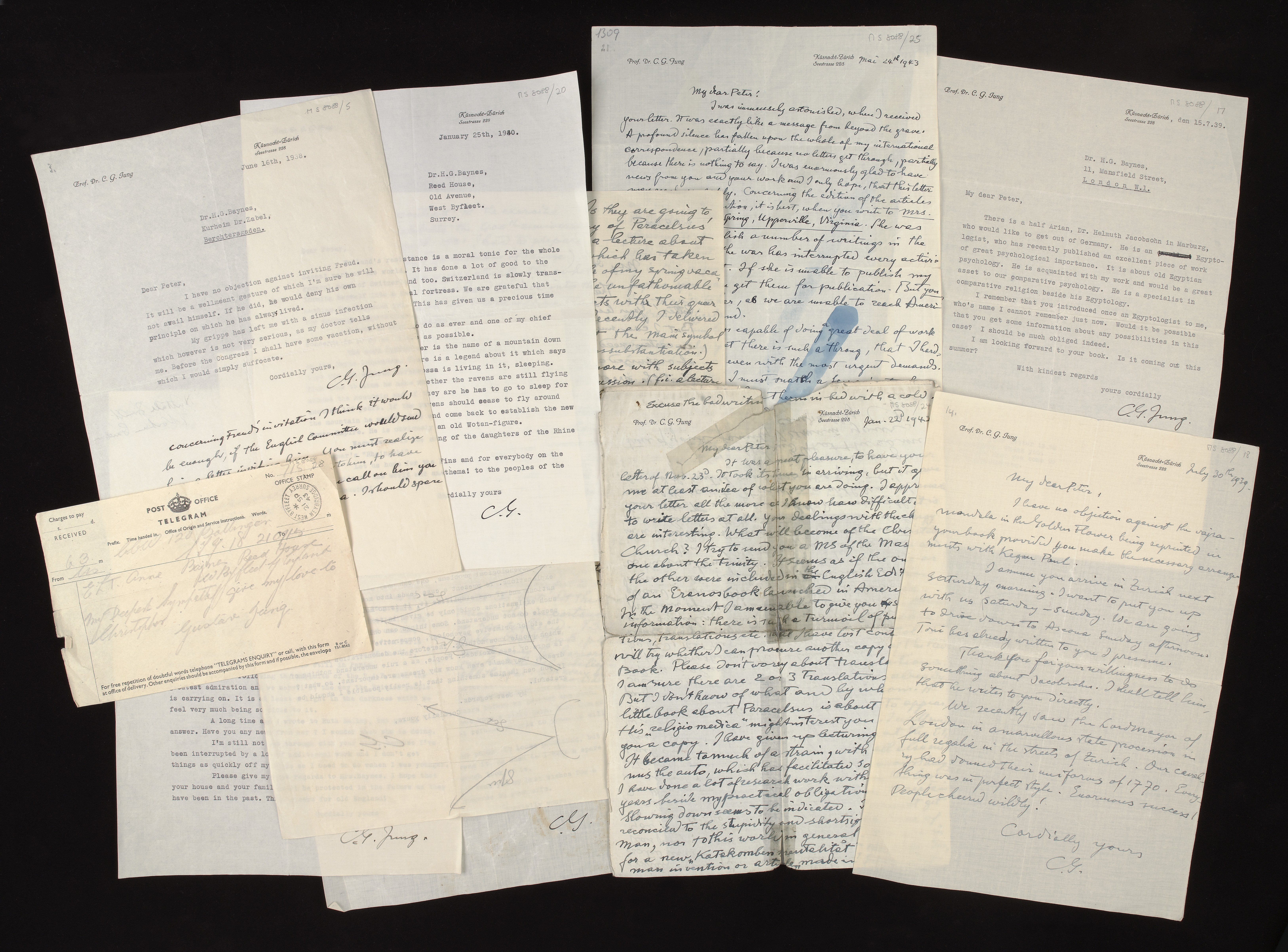 Letters to Helton from Carl Gustav Jung. Archives & Manuscripts Keywords: Psychiatry; C.G, Jung